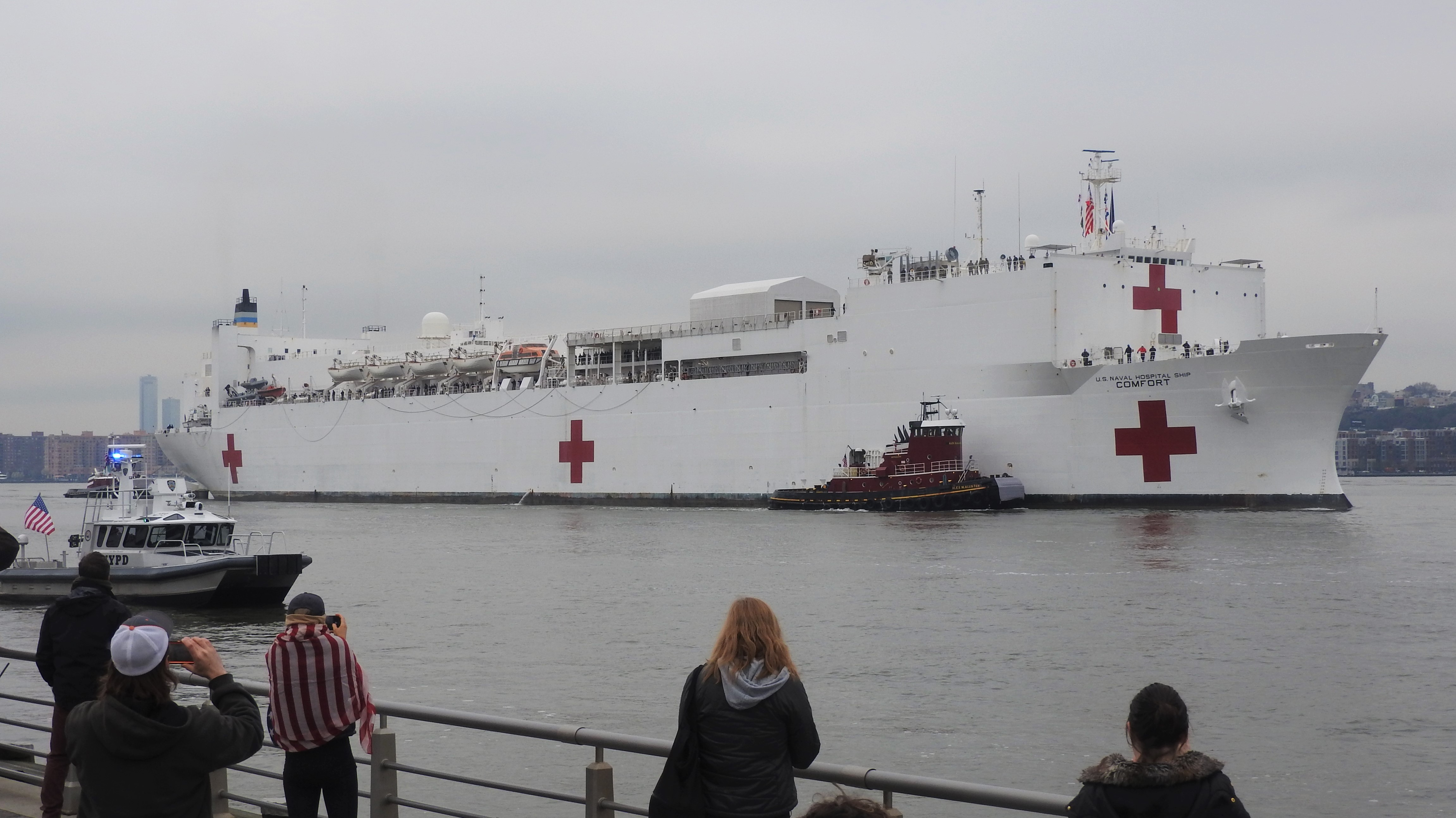 Looking west from Pier 84 on a drizzly day.